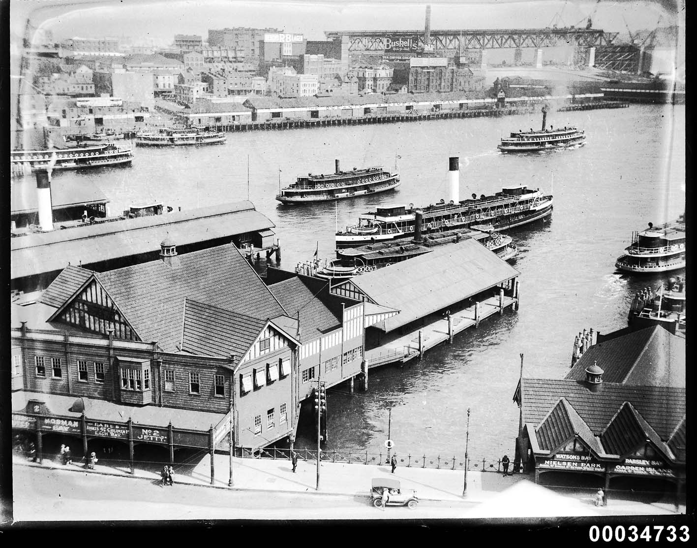 The two ferries with white funnels with black tops are Manly ferries. On the left (largely obscured) is Baragoola, the other is Balgowlah. This photo is part of the Australian National Maritime Museum’s Samuel J. Hood Studio collection. Sam Hood (1872-1953) was a Sydney photographer with a passion for ships. His 60-year career spanned the romantic age of sail and two world wars. The photos in the collection were taken mainly in Sydney and Newcastle during the first half of the 20th century. The ANMM undertakes research and accepts public comments that enhance the information we hold about images in our collection. This record has been updated accordingly. Photographer: Samuel J. Hood Studio Collection Object no. 00034733